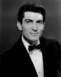 RCA Victor promotional photo of Sergio Franchi